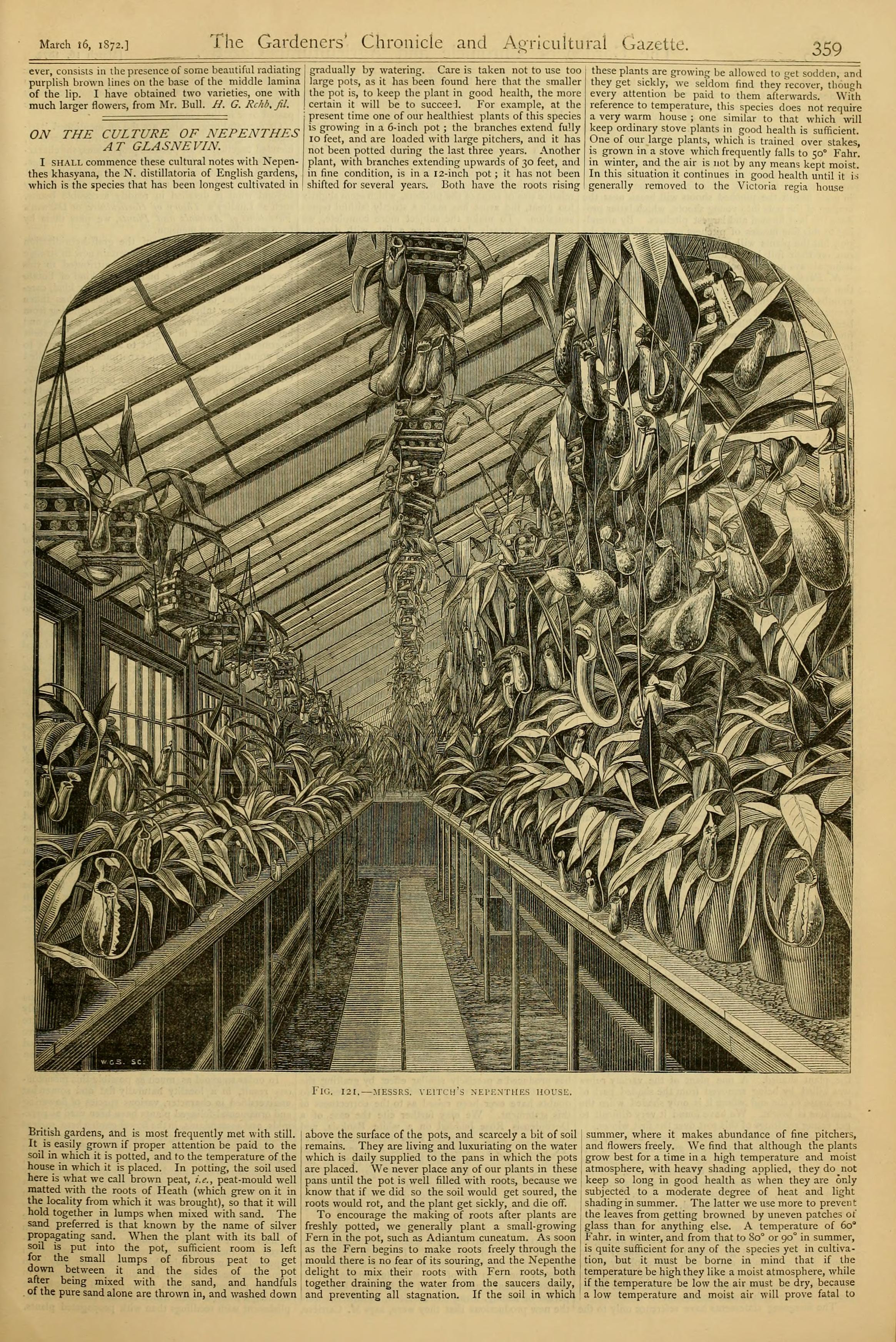 Messrs. Veitch's Nepenthes house